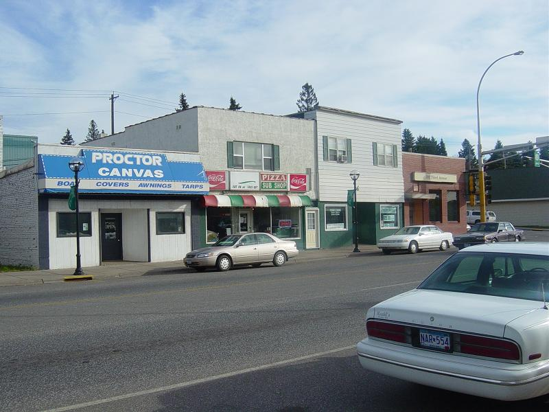 Downtown Proctor Minnesota on US Hwy 2, taken 2 November 2005 by Jacob Norlund (me).